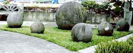 Source:[1] On 02/03/07, Hoopes, John W : Dear Yonatan, You have my permission to use my photos, provided you include credits and a backlinks to the sources. When I was in Costa Rica in October, I was told that a special replica of a stone ball had been comissioned for shipment to Israel (perhaps for a museum). Do you know anything about this? Shalom, John Hoopes Original Message----- Sent: Friday, March 02, 2007 12:42 PM To: Hoopes, John W Subject: Using a picture in wikipedia. hello. I'm writting an article about the stone spheres of costa rica for the hebrew wikipedia. I wonder if i may use a picture you took in the wikipedia. Thanks in advance, yonatan.